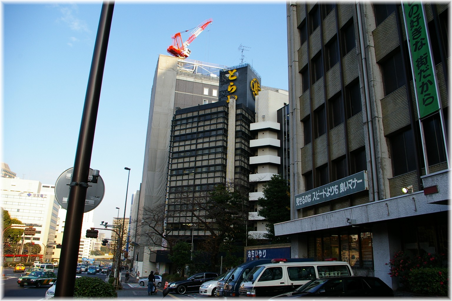 Toraya Confectionery former headquarters in Minato Ward, Tokyo, Japan